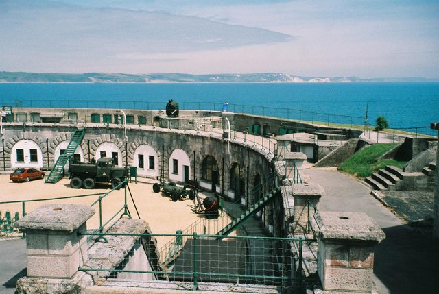 Weymouth: Nothe Fort, looking east Looking across the top of this military fort, now a museum, towards the cliffs of the Purbeck coast.